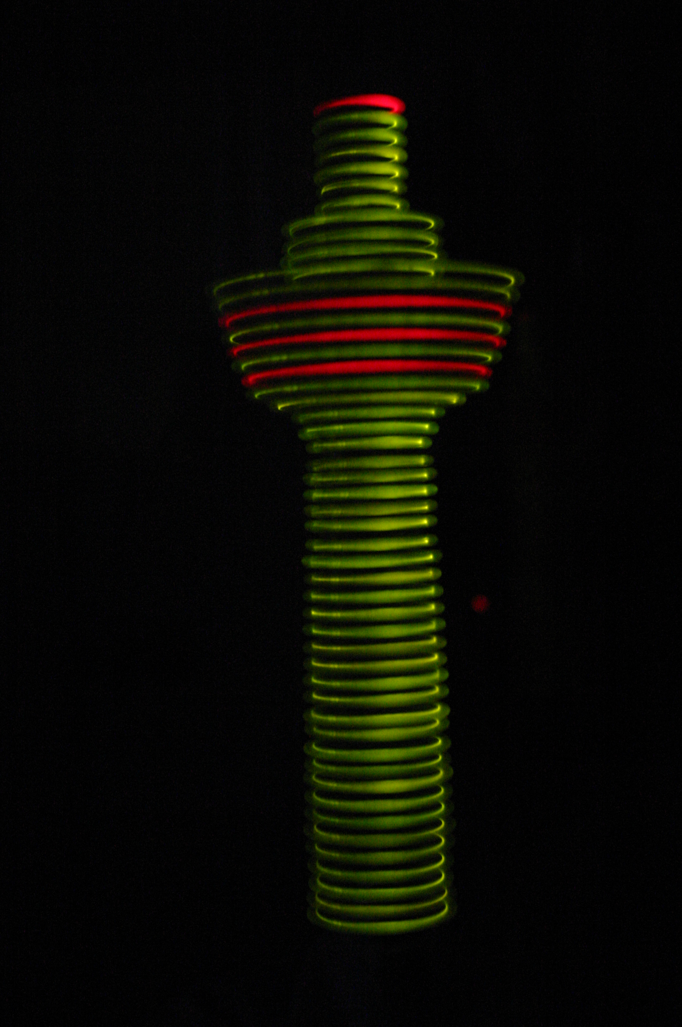 A Conceptual Demo of UCSI Volex: a Volumetric Display Using LEDs. Author: UCSI Source: UCSI URL: n/a